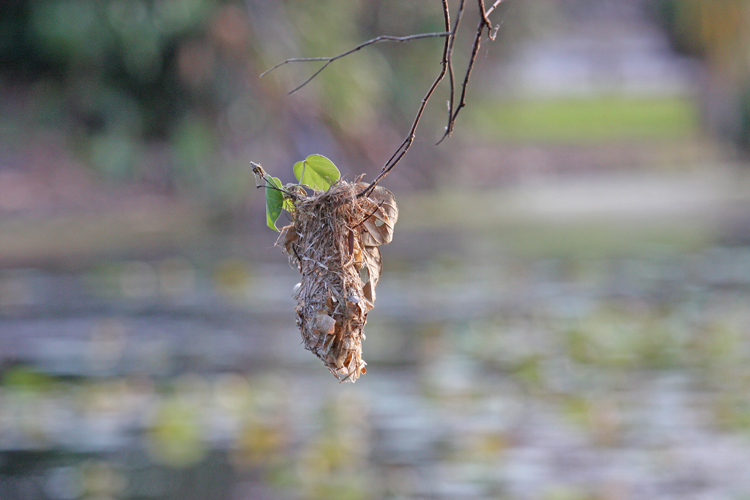 "7/11/2007 Cairns Botanic Gardens. The birds were around, but I didn't manage to photograph them at the nest, and I didn't stay around so as not to disturb them. Caught up with the bird at Abattoir Swamp near Kingfisher Lodge two days later." (see File:Brown-backed Honeyeater (Ramsayornis modestus).jpg)